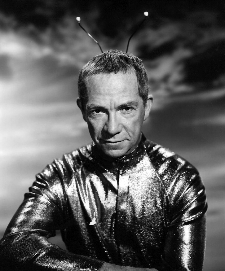 Photo of Ray Walston as Uncle Martin from the television program My Favorite Martian.